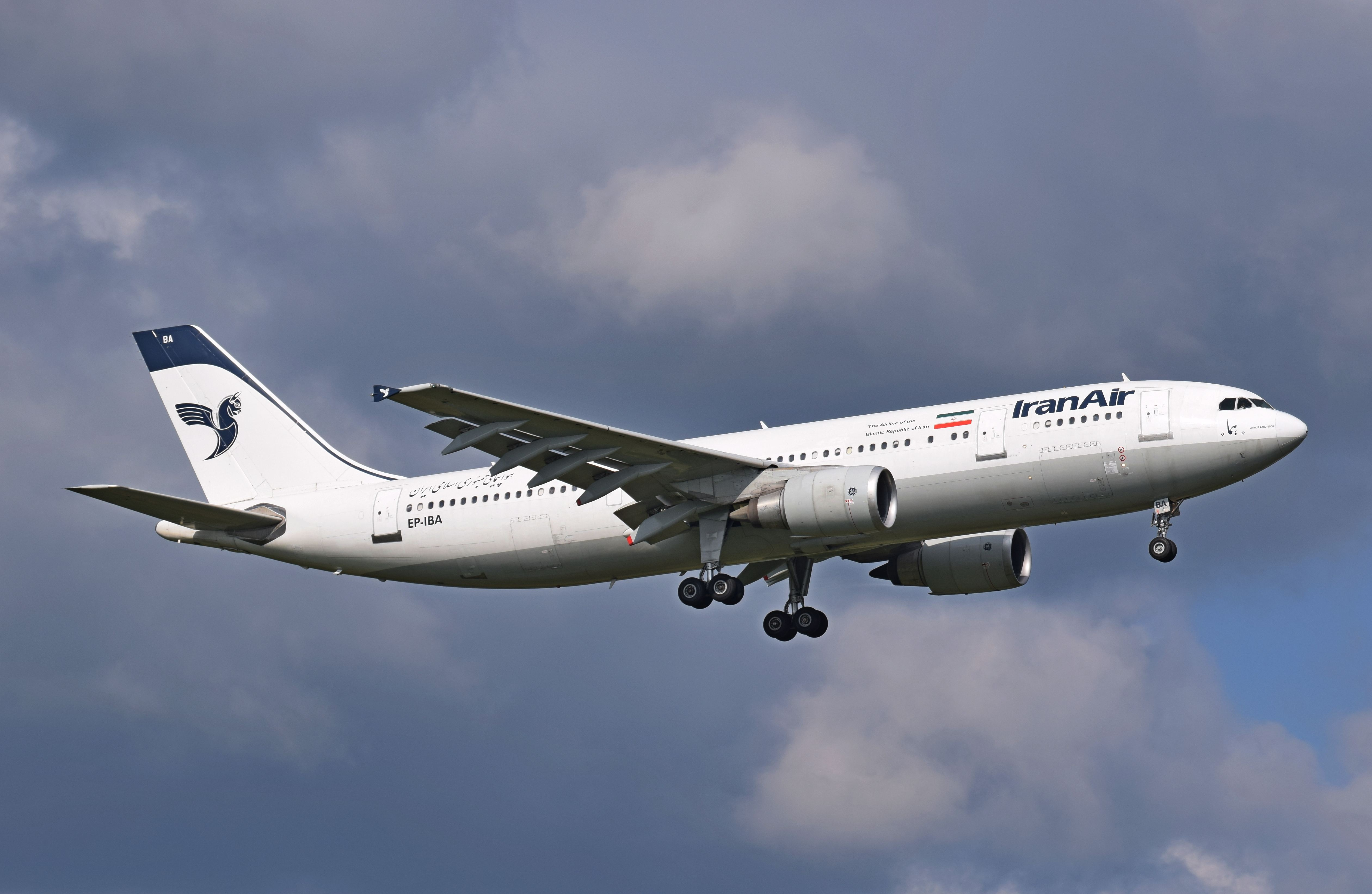 Iran Air Airbus A300B4-605R (EP-IBA) arrives London Heathrow Airport, England.